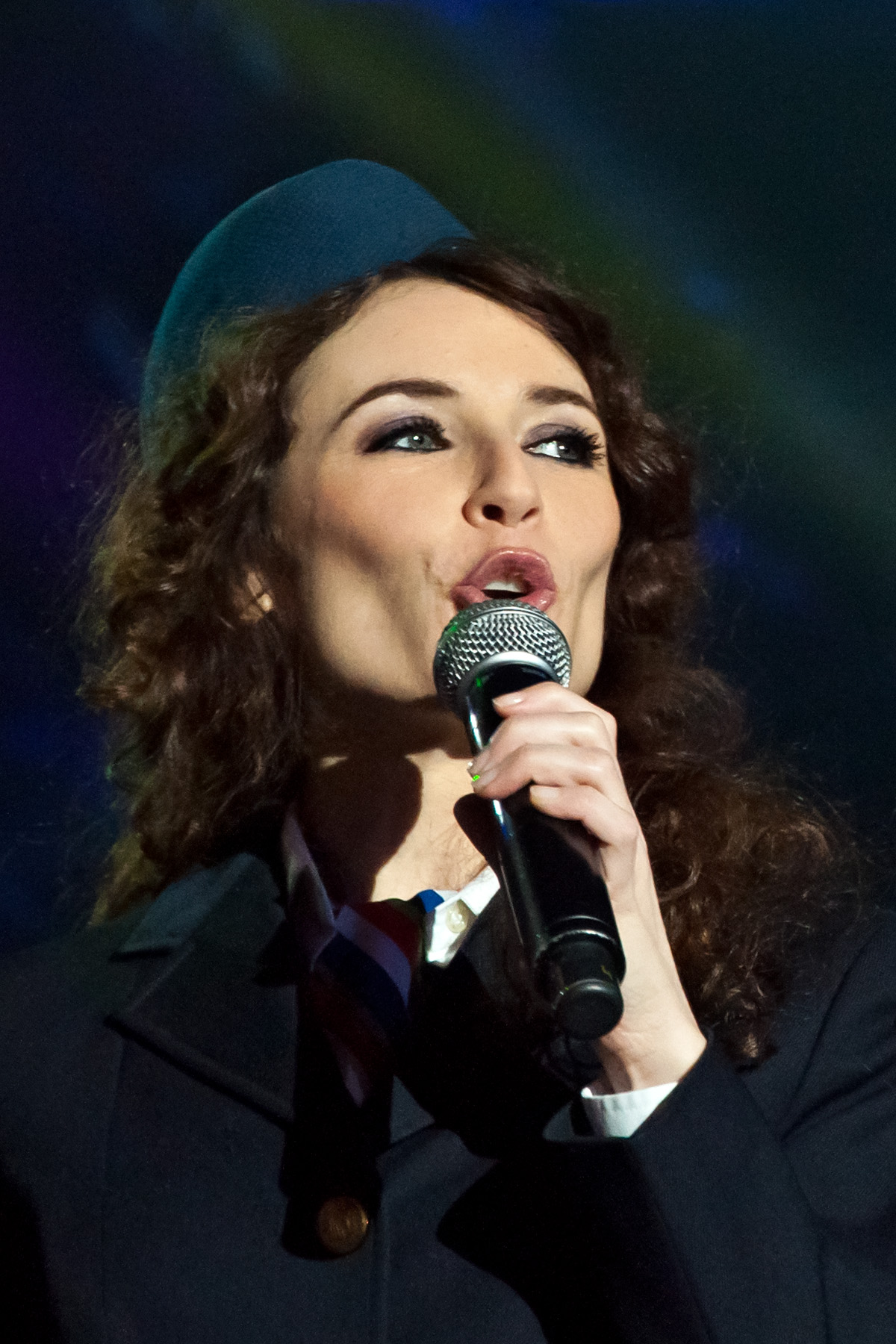 French singer Elsa Lunghini singing during Les Enfoirés 2012 in Lyon, France.